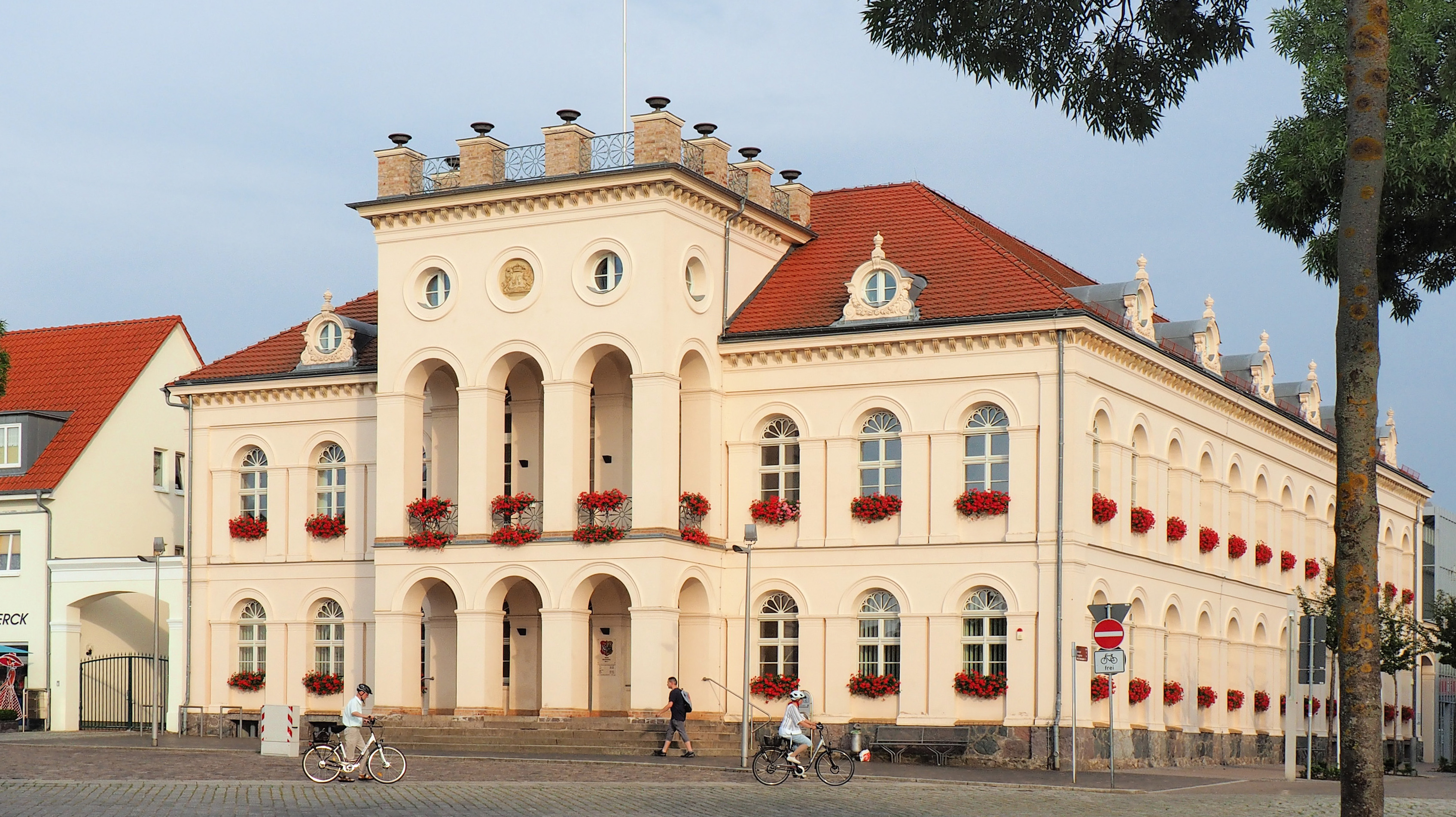 Town hall in Neustrelitz, German Federal State Mecklenburg-Vorpommern.